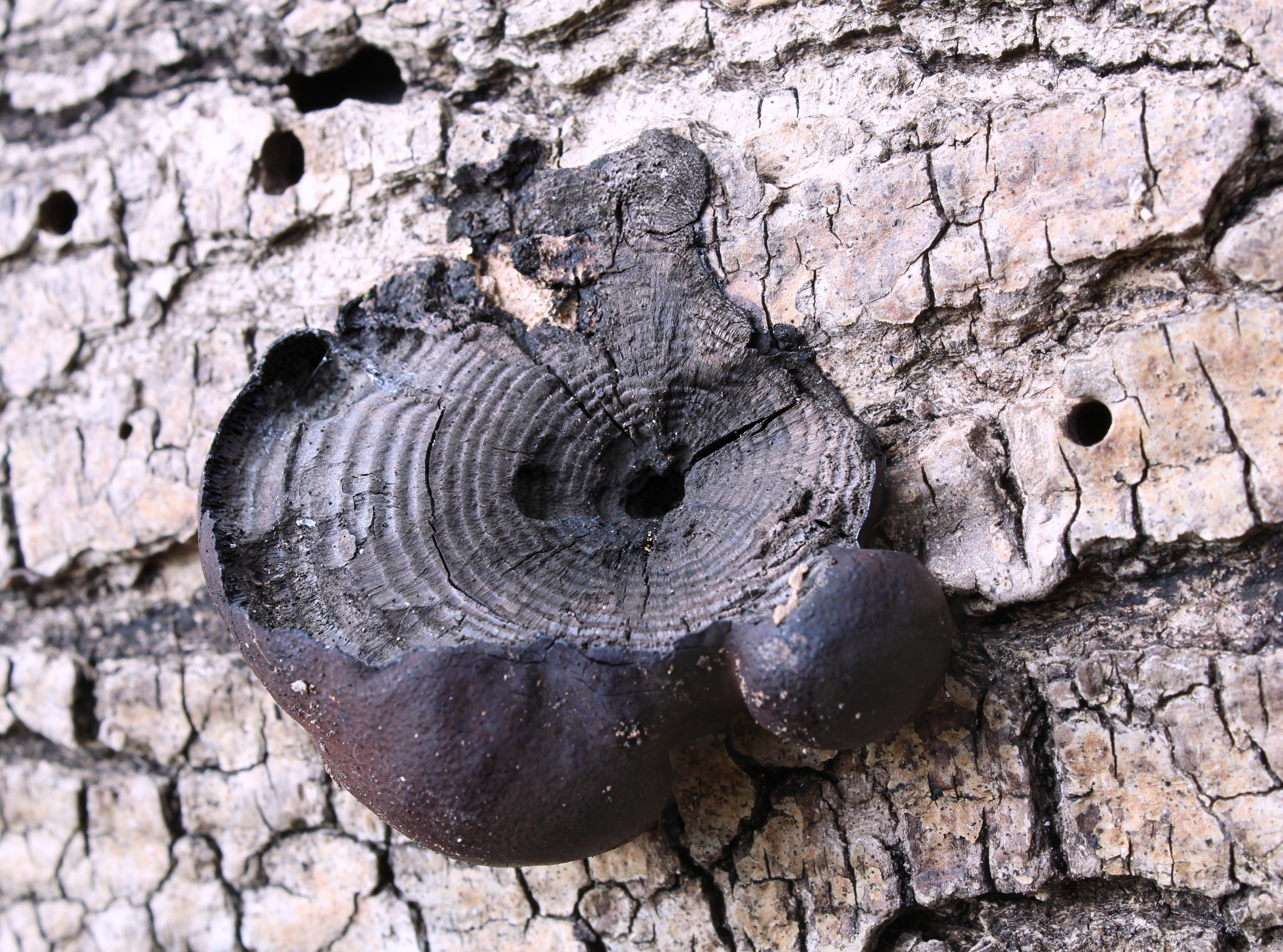 Daldinia concentrica, Cramp Balls or King Alfred's Cakes , taken in Enfield, London, UK. This broken specimen shows the concentric rings that give this species its name.